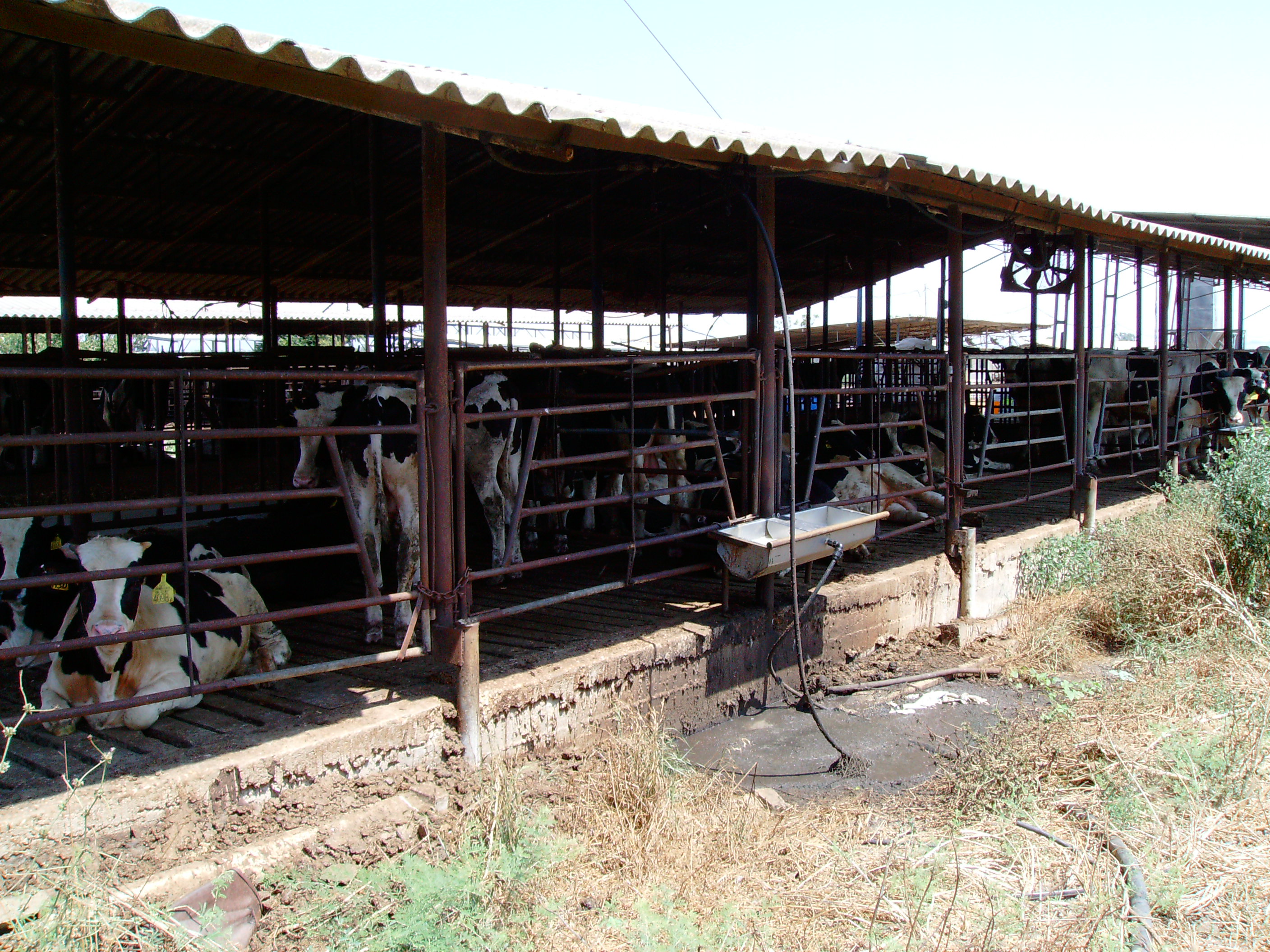 This cowshed, one of many similar ones in Kfar Yehoshua, Israel, is covered with asbestos. Asbestos is now forbidden for use in the western world, due to its link to several forms of cancer in addition to lung cancer. See for example Bunderson-Schelvan, Melisa et al.: "Nonpulmonary Outcomes of Asbestos Exposure", Journal of Toxicology and Environmental Health, Vol. 14 (2011) Part B, pp. 122–152. Like other cowsheds in the place, this one has a concrete container built under it for the cows' excrements, which is covered with concrete beams. This method is also not used in modern countries anymore, as the beams cause injuries to the animals. The container under this cowshed seem to be broken and a puddle of excrement was created around the water pipes and under the trough containing the cows' drinking water.